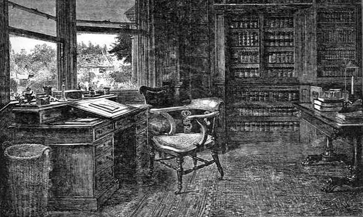 Samuel Luke Fildes - The Empty Chair, engraving of a water color (The Graphic, 1870)